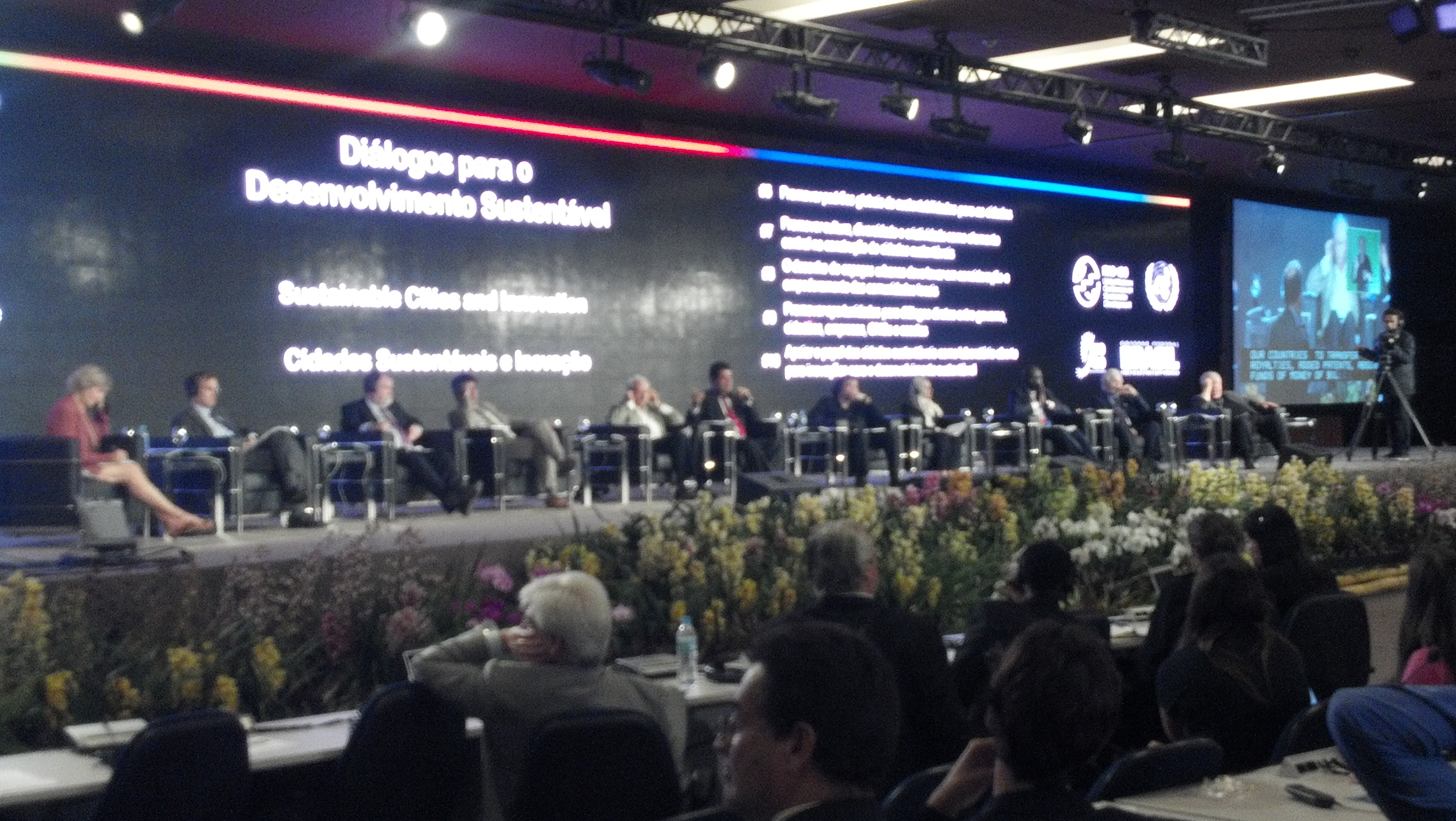 Rio+20. Rio Centro